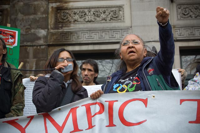 Harsha Walia, of the Downtown Eastside Women's Centre and activist from the Power of Women Group at a rally for the Olympic Tent City. Pigeon Park, Downtown Eastside, Vancouver.